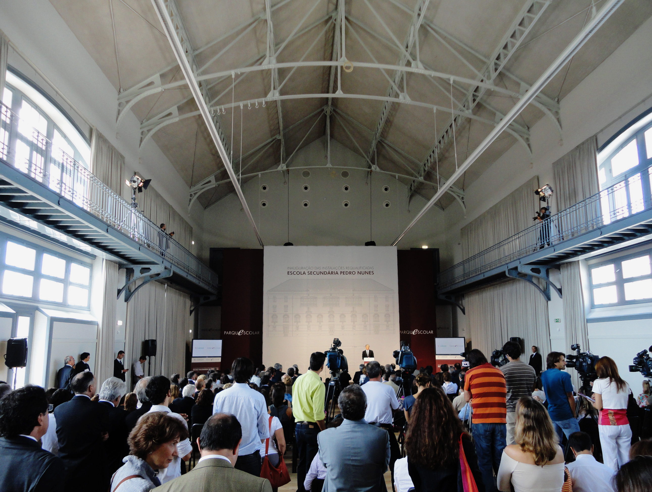 Pedro Nunes Secondary School, Lisbon, 2010